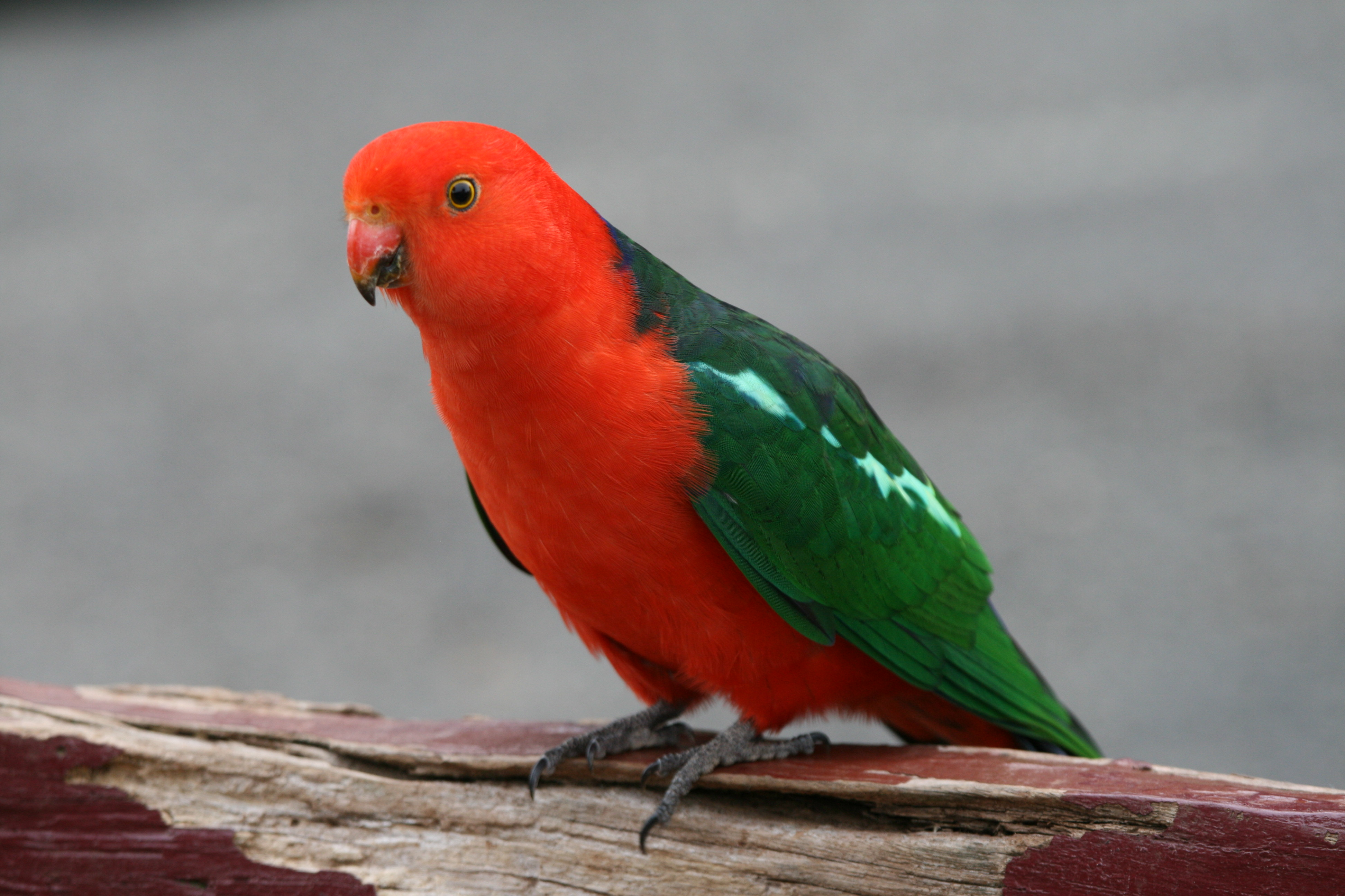 Australian King Parrot (Alisterus scapularis) at The Bunya Mountains, Queensland, Australia. Picture taken 27 July 2008.